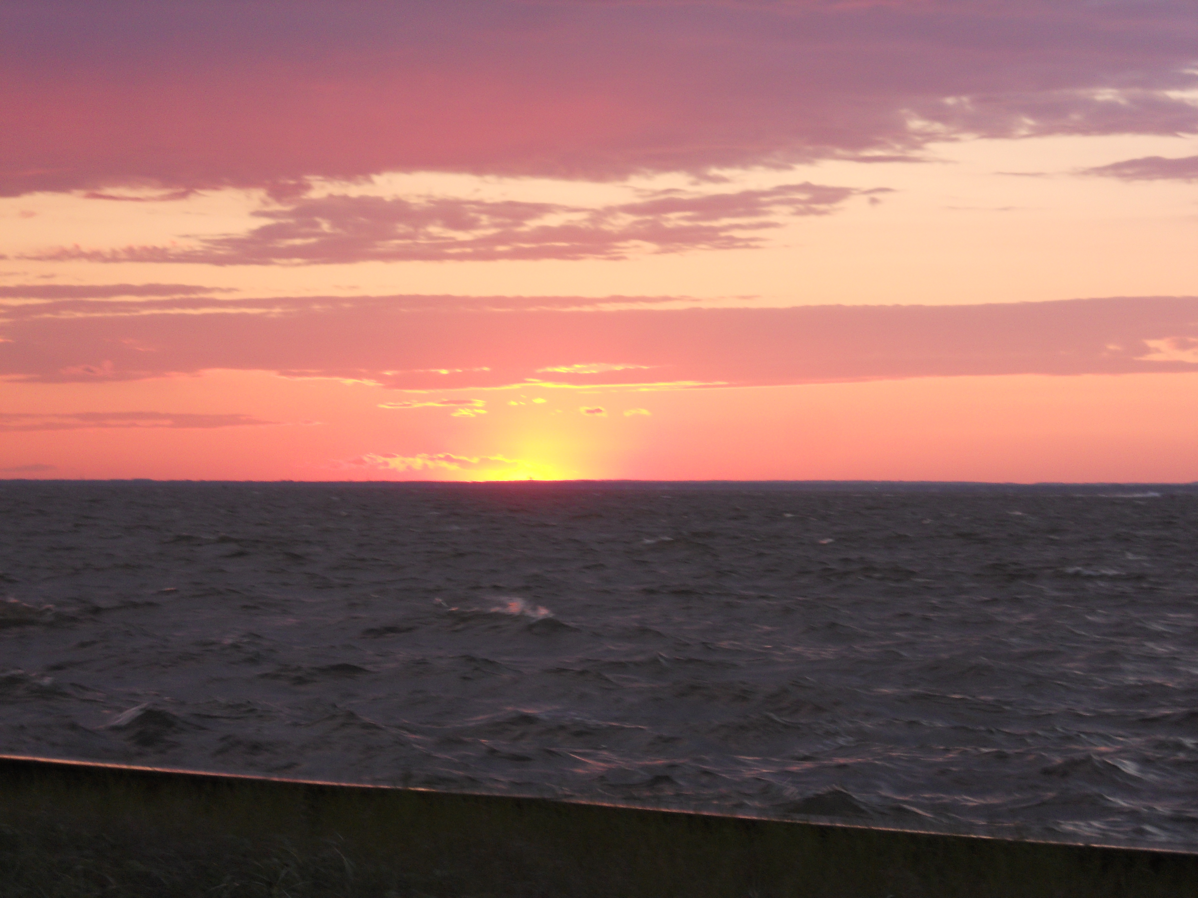 The setting sun behind western Long Island, across the Great South Bay from Fire Island, in New York state